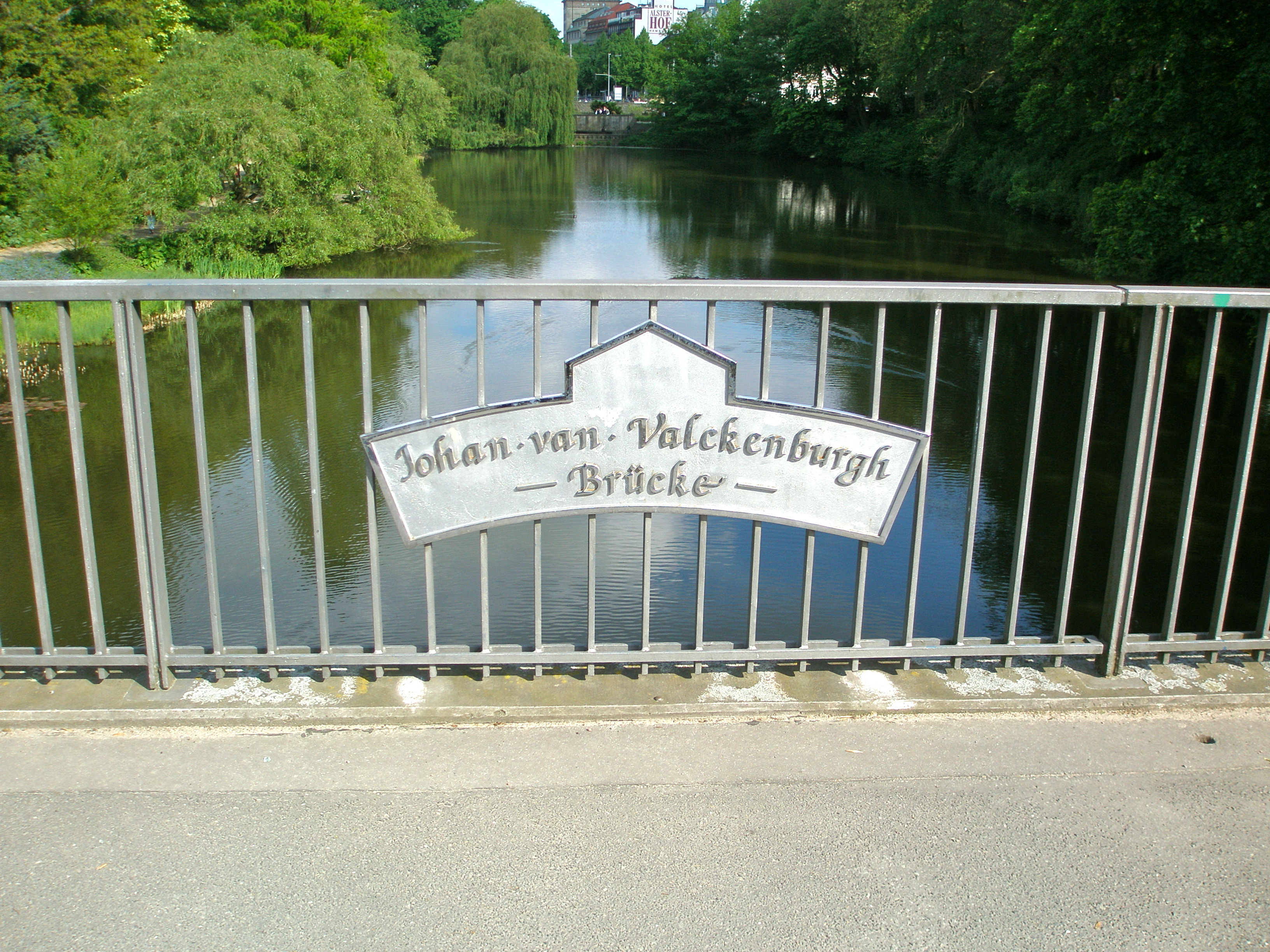 named after Johan van Valckenburgh, architect of the fortifications of Hamburg